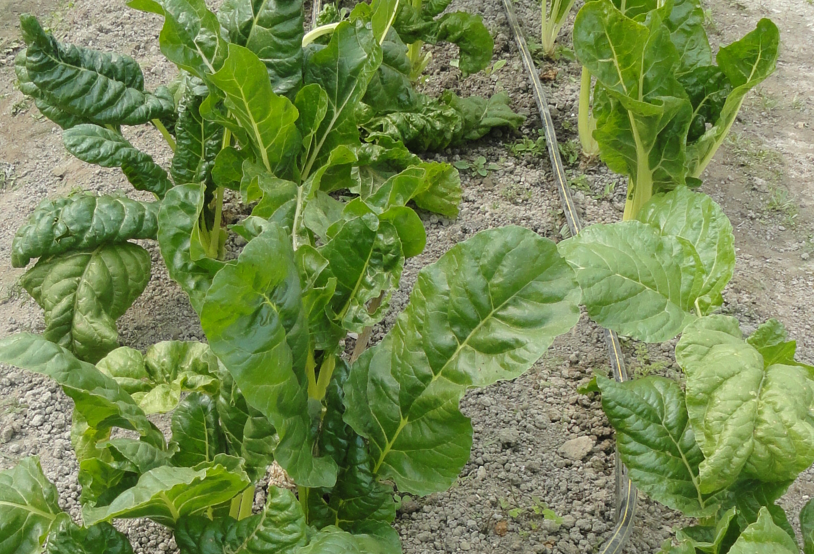 A leafy Vegetable